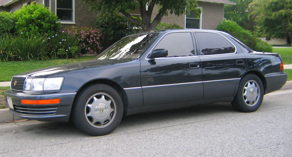 Lexus LS 400